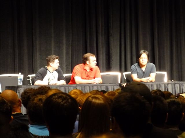 Desmond Dolly, Matt Arnold, and Freddie Wong of RocketJump discuss Video Game High School Season 2 during a panel at RTX 2013.